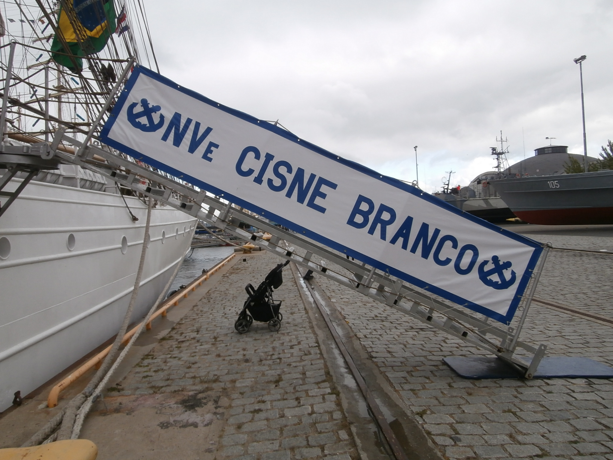 Cisne Branco gangway in the middle of ship, Lennusadam, Tallinn 17 July 2017